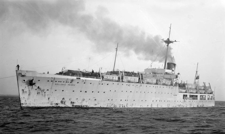 Hellenic Prince (former HMAS Albatross)